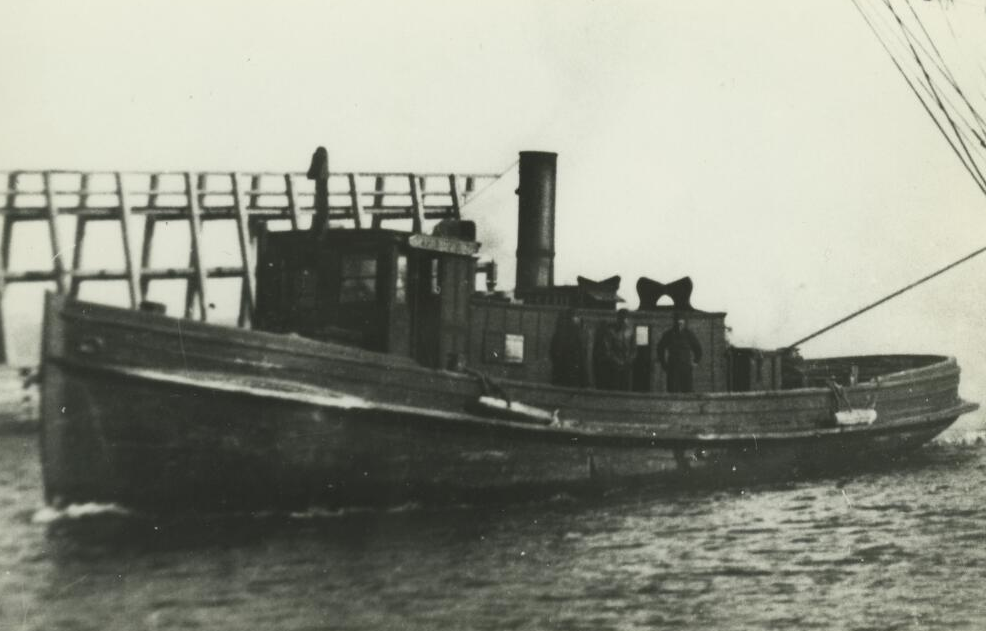 The tugboat Arctic before her hull extension in 1898